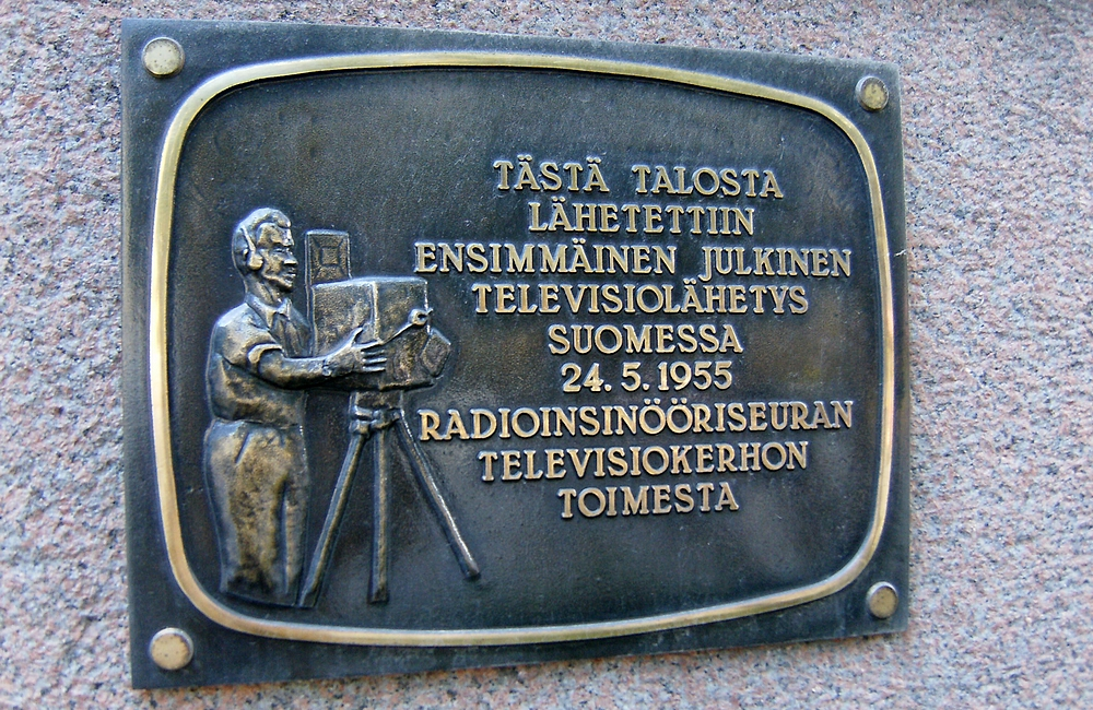 A memorial sign at Albertinkatu 40–42 in Helsinki, Finland, to commemorate the first public television broadcast in Finland on May 24, 1955